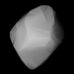 3D convex shape model of 1116 Catriona, computed using light curve inversion techniques. J. Hanuš, J. Ďurech, M. Brož, B. D. Warner (June 2011). "A study of asteroid pole-latitude distribution based on an extended set of shape models derived by the lightcurve inversion method". Astronomy and Astrophysics 530: A134. ISSN 0004-6361. arXiv